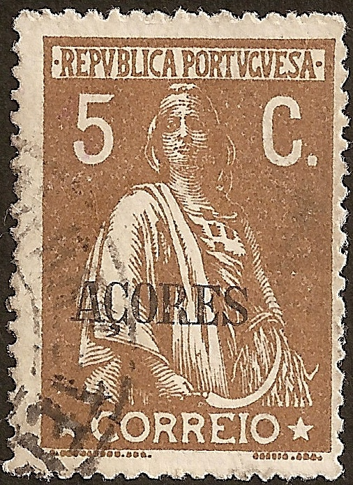 1918-1921 stamp of the Azores from the Ceres series, first issued 1912 in Portugal and overprinted in the Azores.